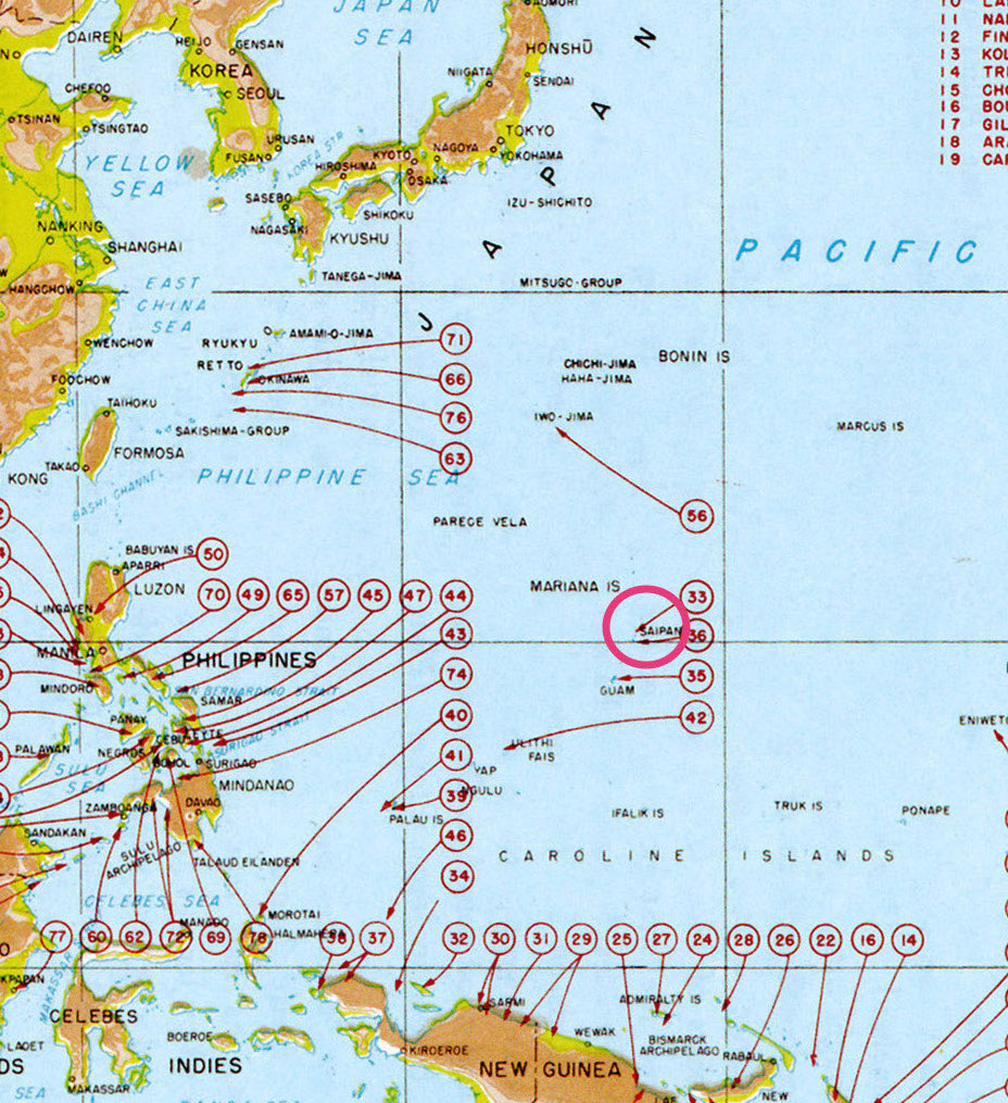 Crop from File:US landings.jpg